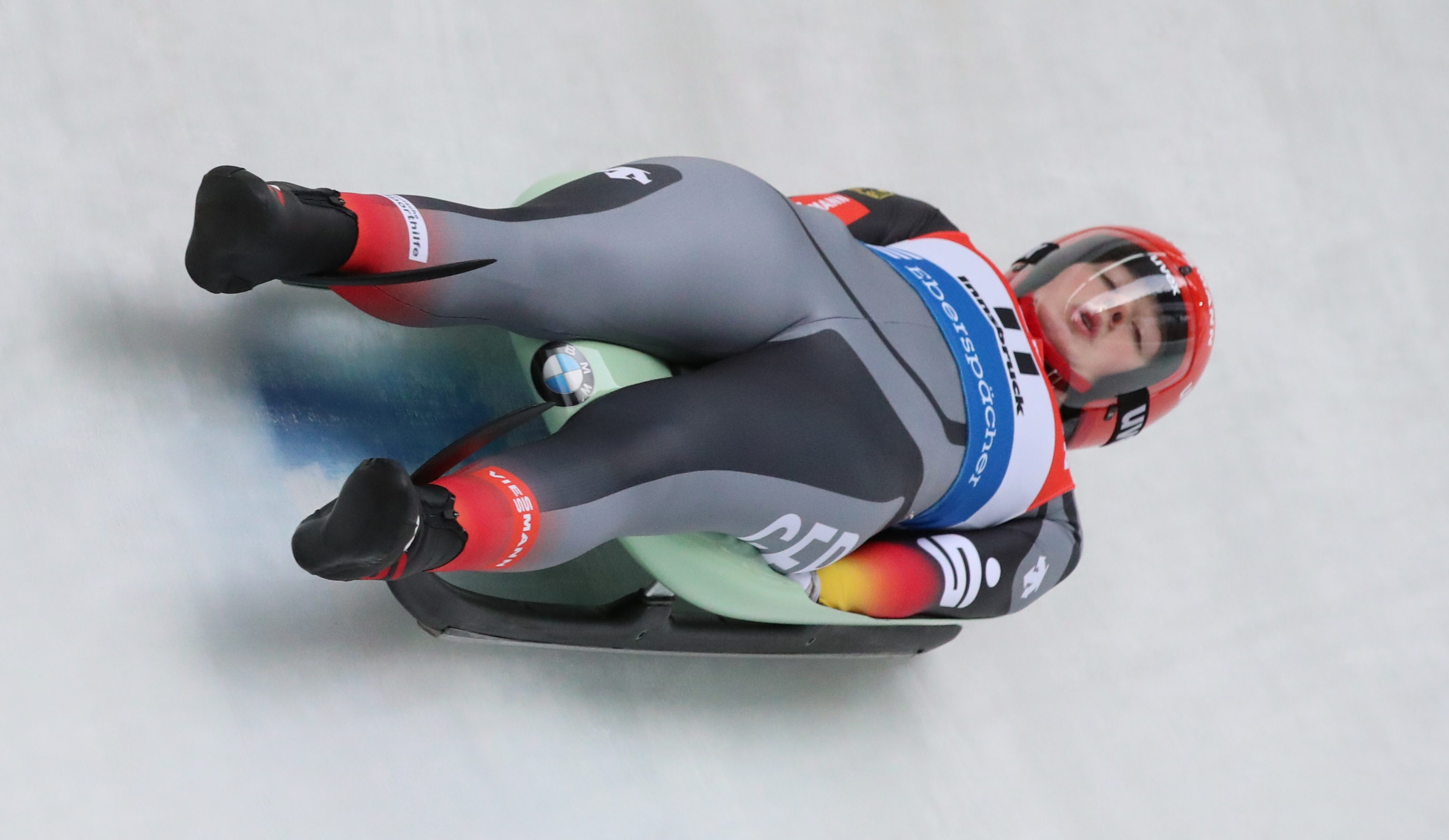 Women's World Cup race at the 2019/20 Luge World Cup in Innsbruck-Igls